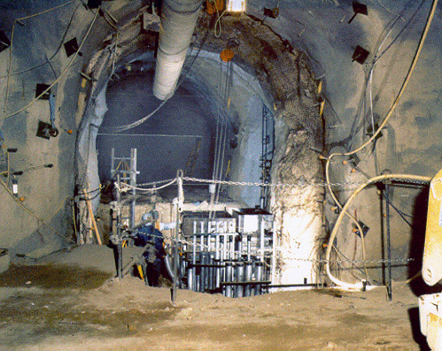 Nevada Test Site. Mining at U1a facility.